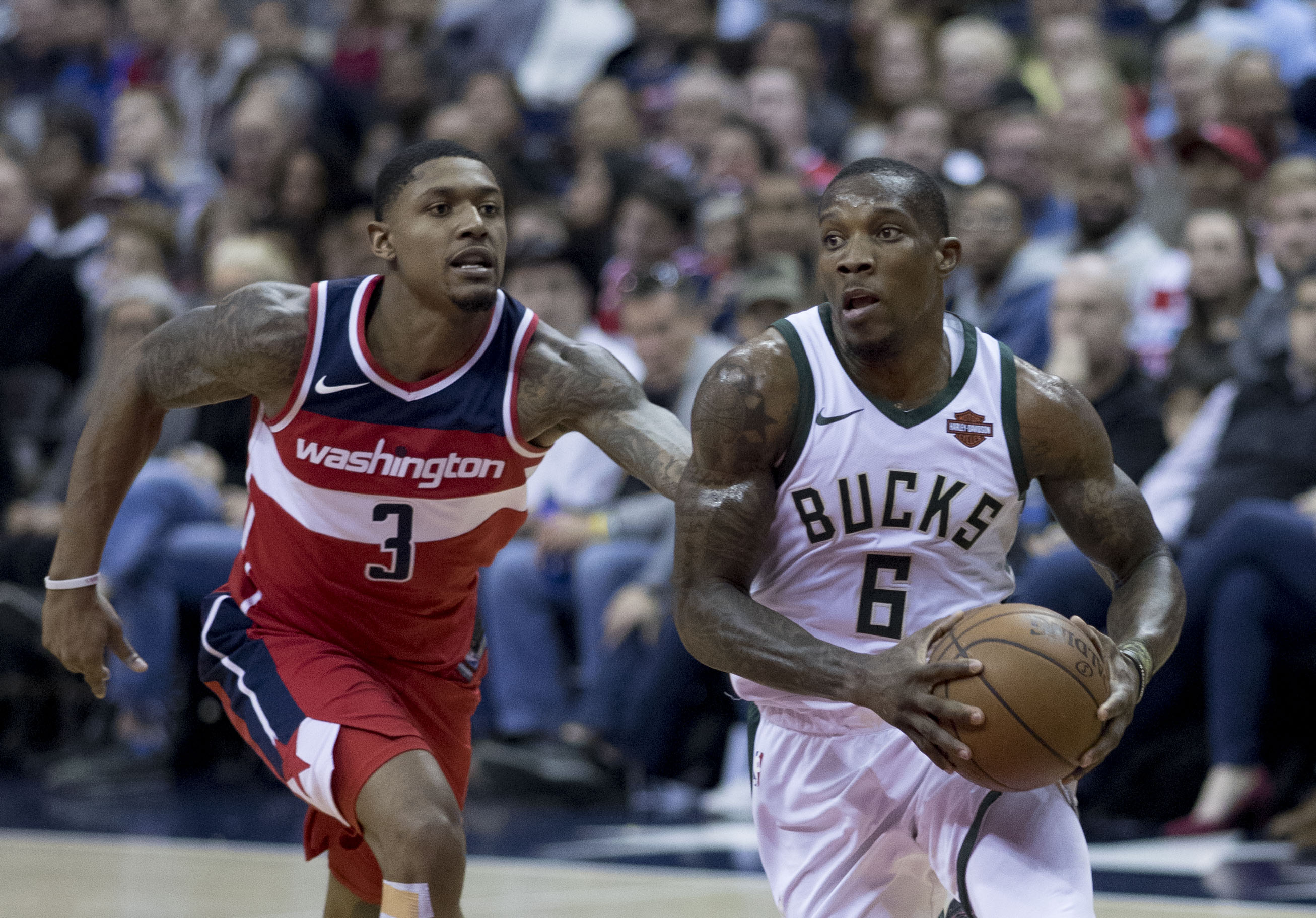 Eric Bledsoe of the Milwaukee Bucks during the game against the Washington Wizards on January 15, 2018 at Capital One Arena in Washington, DC.